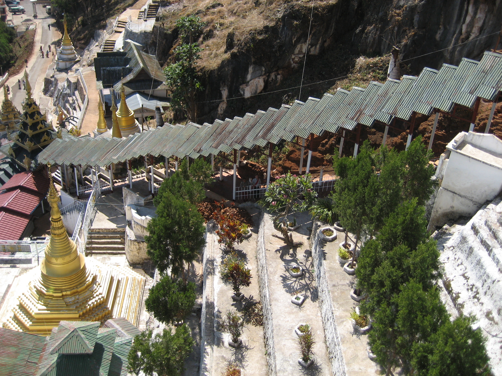 Saungdan (covered stairway) to the Pindaya Caves